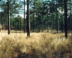 Carolina Sandhills National Wildlife Refuge Photo: USFWS